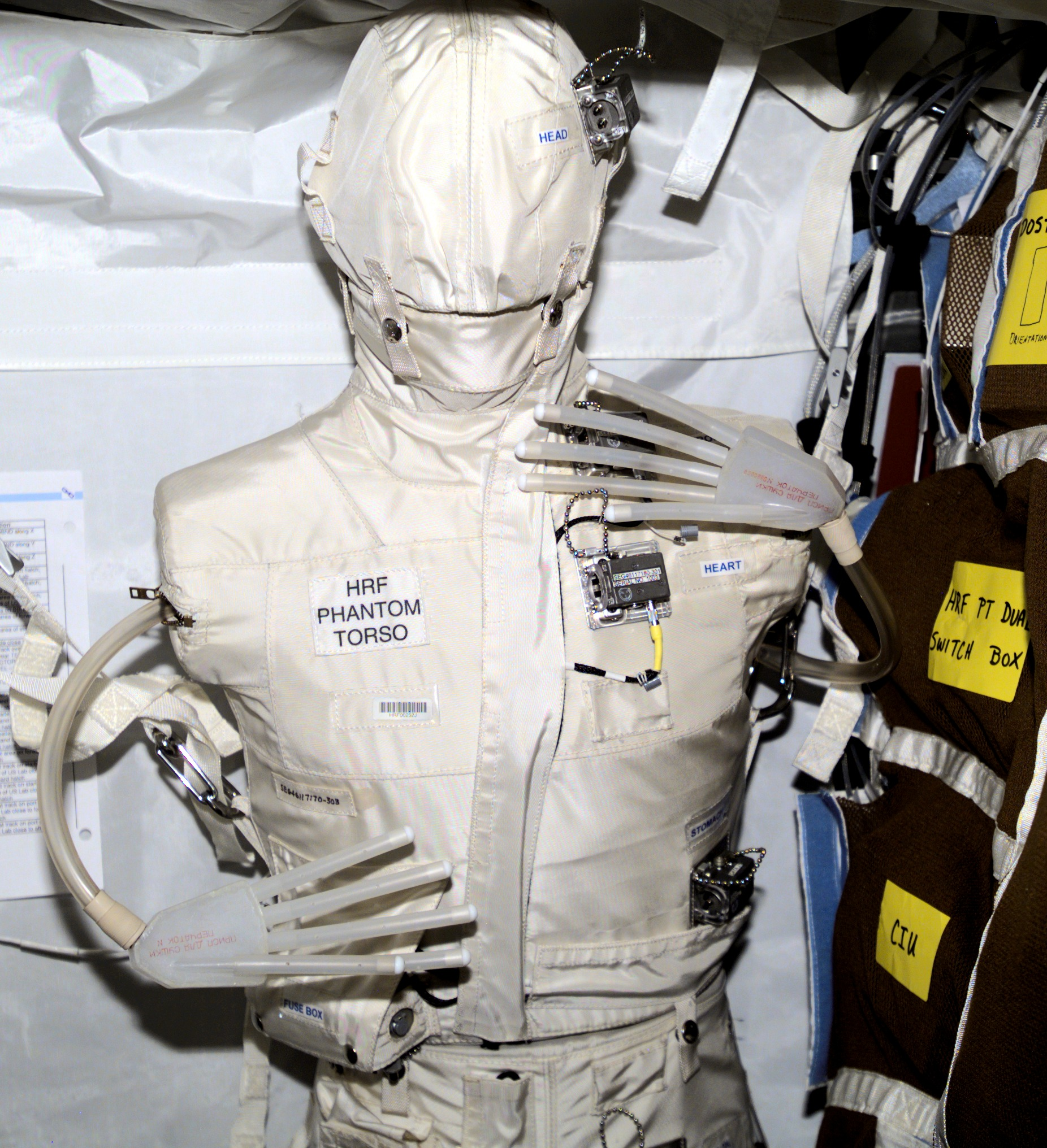 The Phantom Torso, seen here in the Destiny laboratory on the International Space Station (ISS), is designed to measure the effects of radiation on organs inside the body by using a torso that is similar to those used to train radiologists on Earth. The torso is equivalent in height and weight to an average adult male. It contains radiation detectors that will measure, in real-time, how much radiation the brain, thyroid, stomach, colon, and heart and lung area receive on a daily basis. The data will be used to determine how the body reacts to and shields its internal organs from radiation, which will be important for longer duration space flights. The experiment was delivered to the orbiting outpost during by the STS-100/6A crew in April 2001. Dr. Gautam Badhwar, NASA JSC, Houston, TX, is the principal investigator for this experiment.